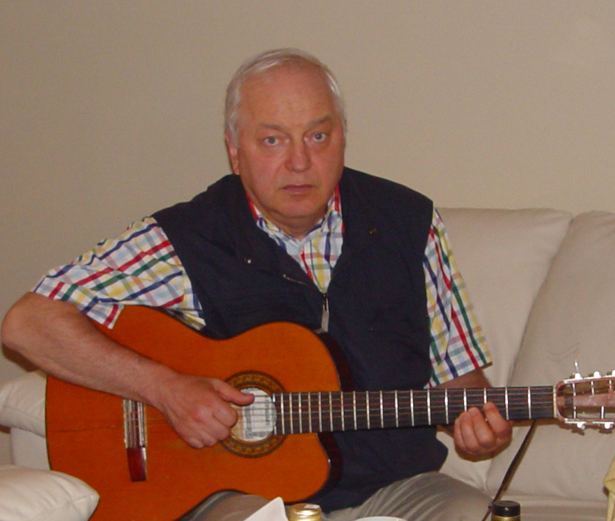 Sergey Nikitin, June 2006